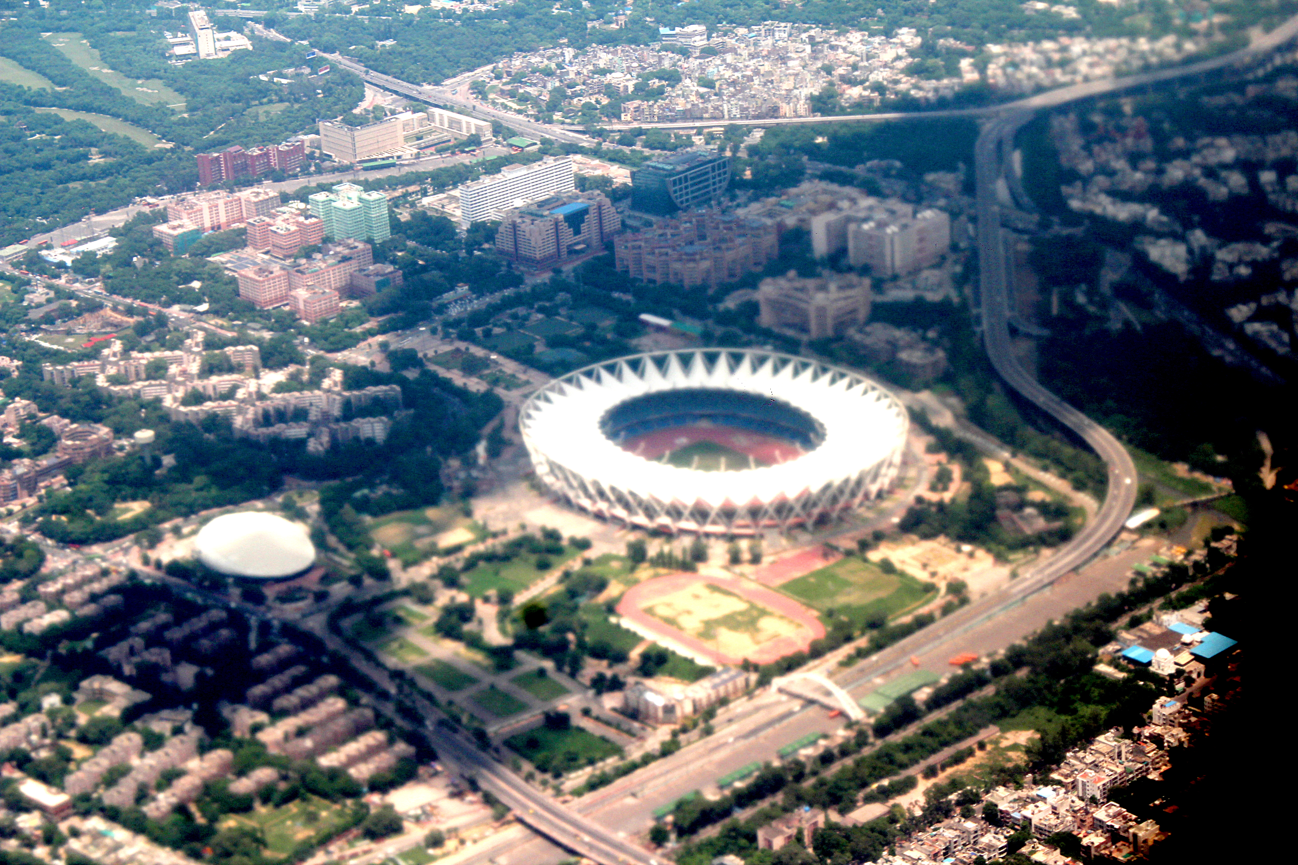 Delhi aerial photo during travel to Chandigarh Mohali for Wikiconference India 2016 on 4th Aug 2016